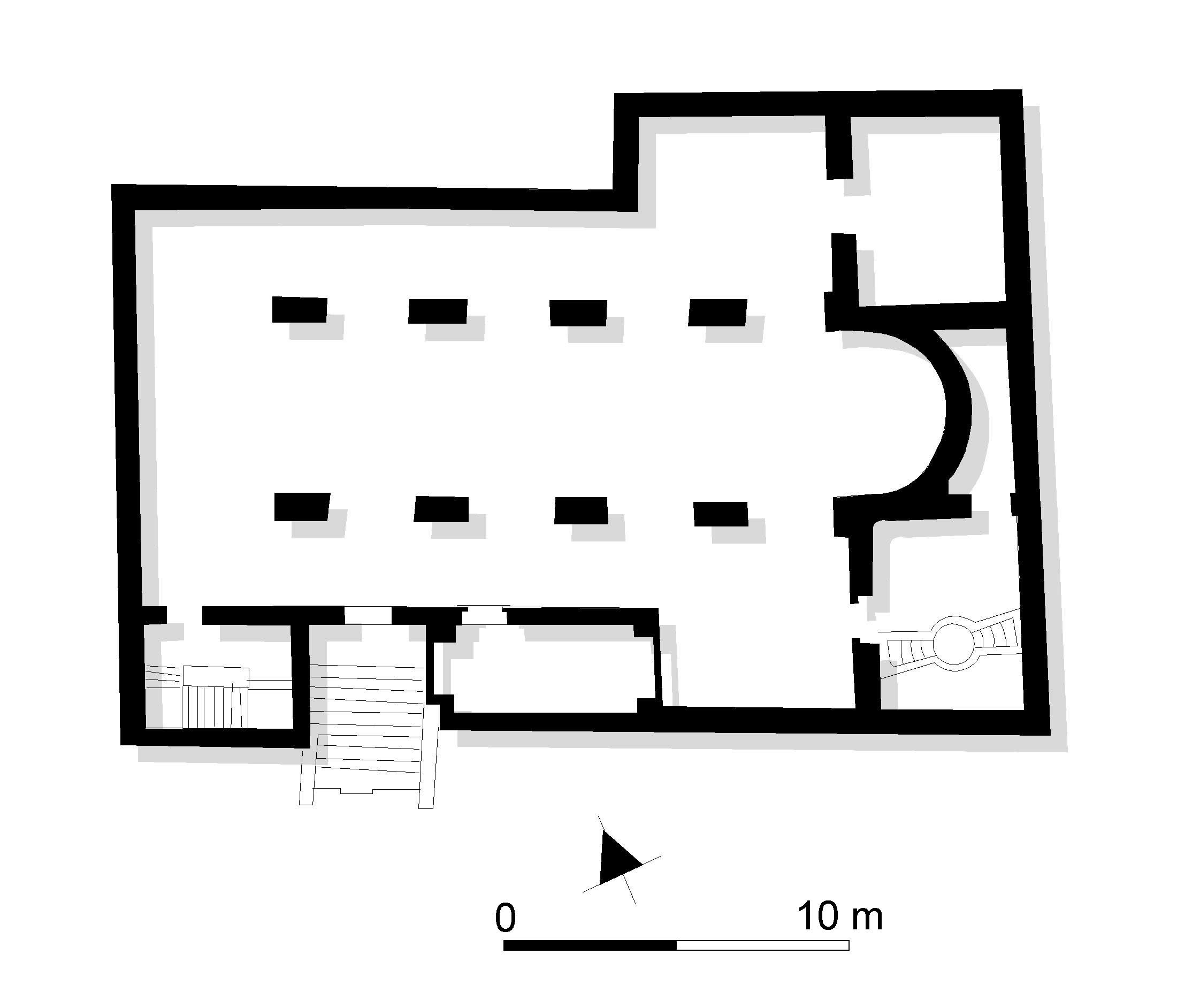 Plan of the 'Old church' in Old Dongola (Nubia), about 550